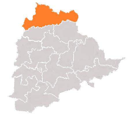 This is the boundary of Adilabad Loksabha segment in Telangana